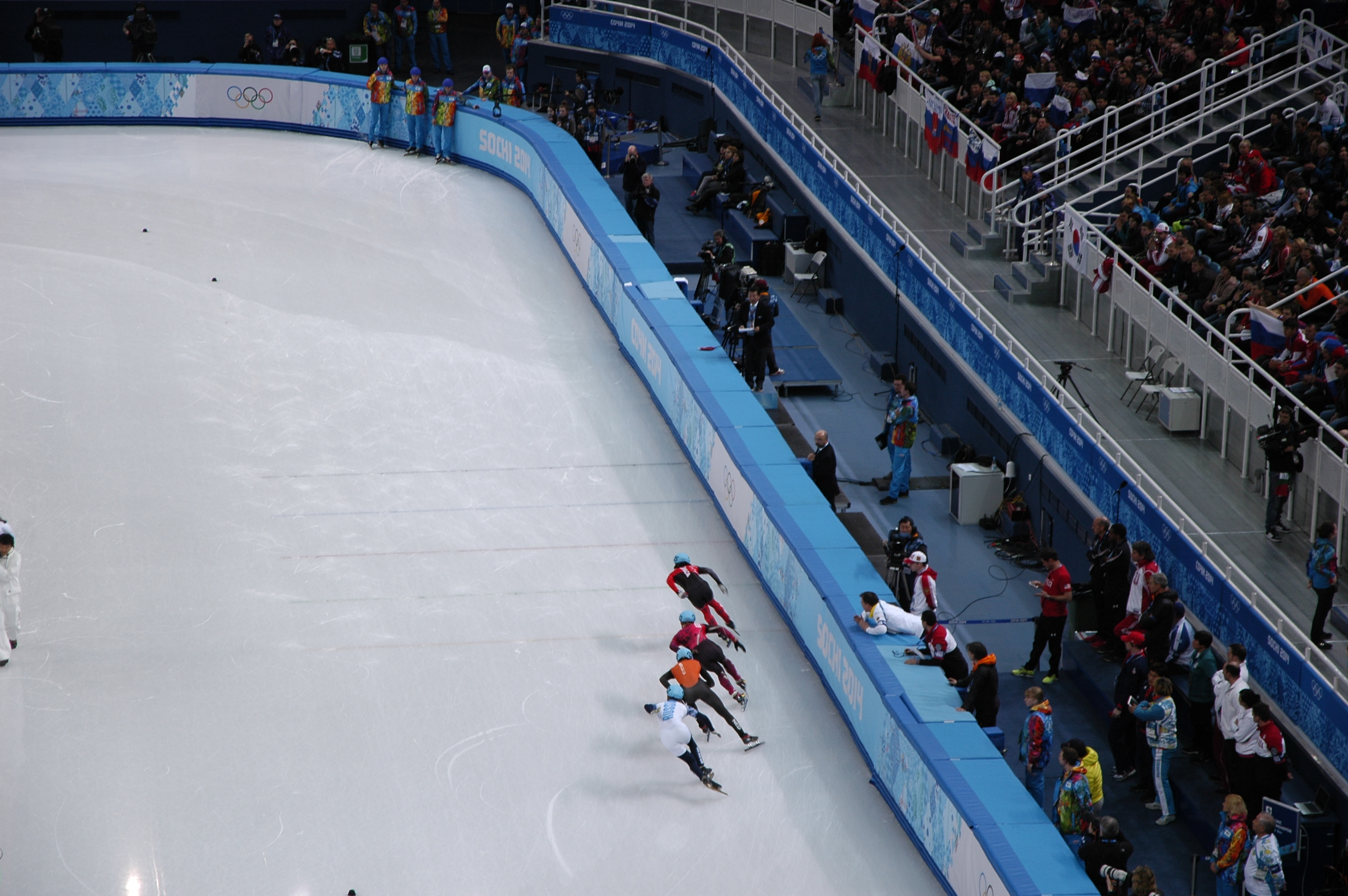 Men's 500m short track, 2014 Winter Olympics, heat 8 1 Sjinkie Knegt Netherlands 41.235 Q 2 Semen Elistratov Russia 41.355 Q 3 Robert Seifert Germany 41.624 4 Charles Hamelin Canada 1:18.871